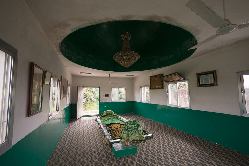 An Nabi Ayub Tomb, also known as the Tomb of Job, in Nabt Ayoub, Dhofar, Oman.